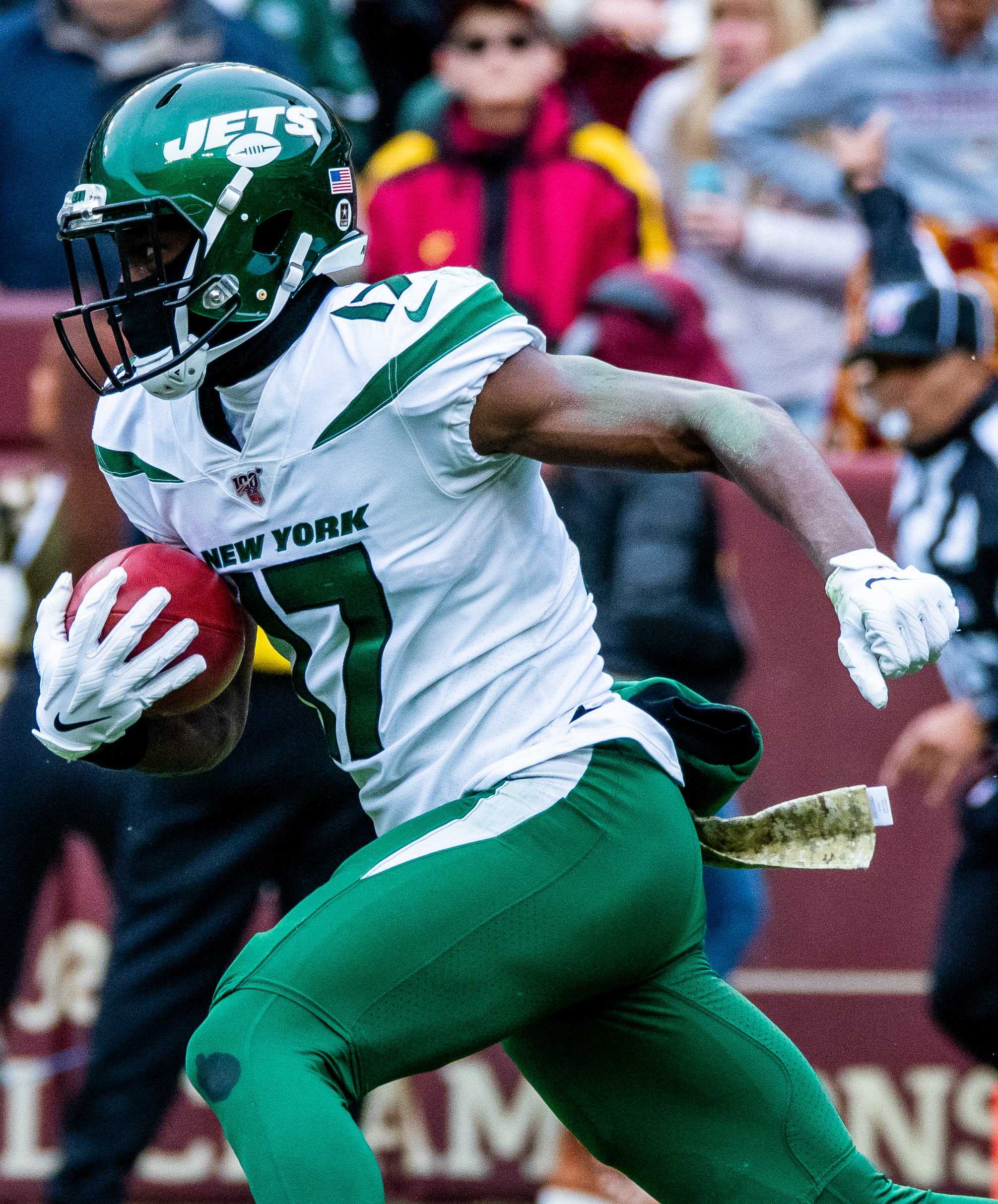 In 2019